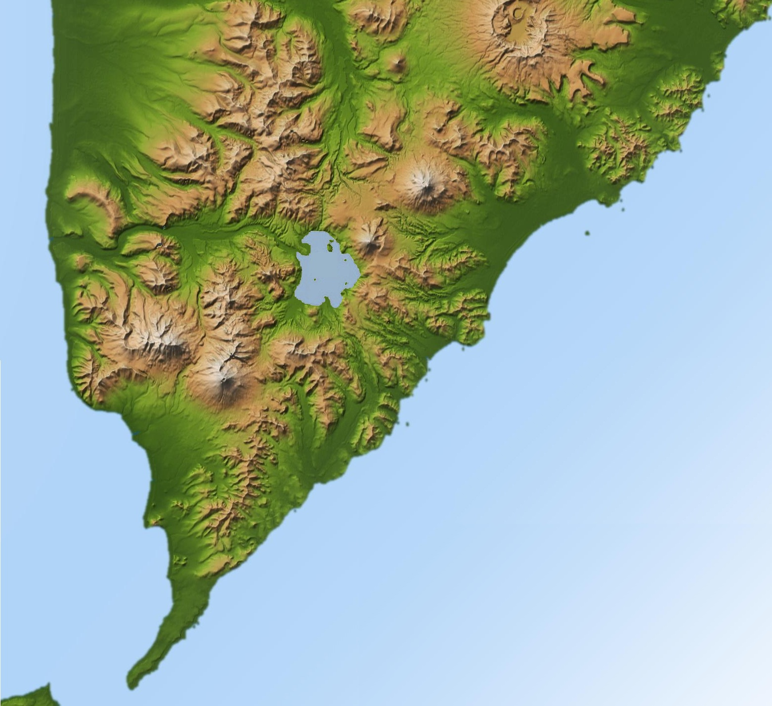 A sideways view of kamchatka.